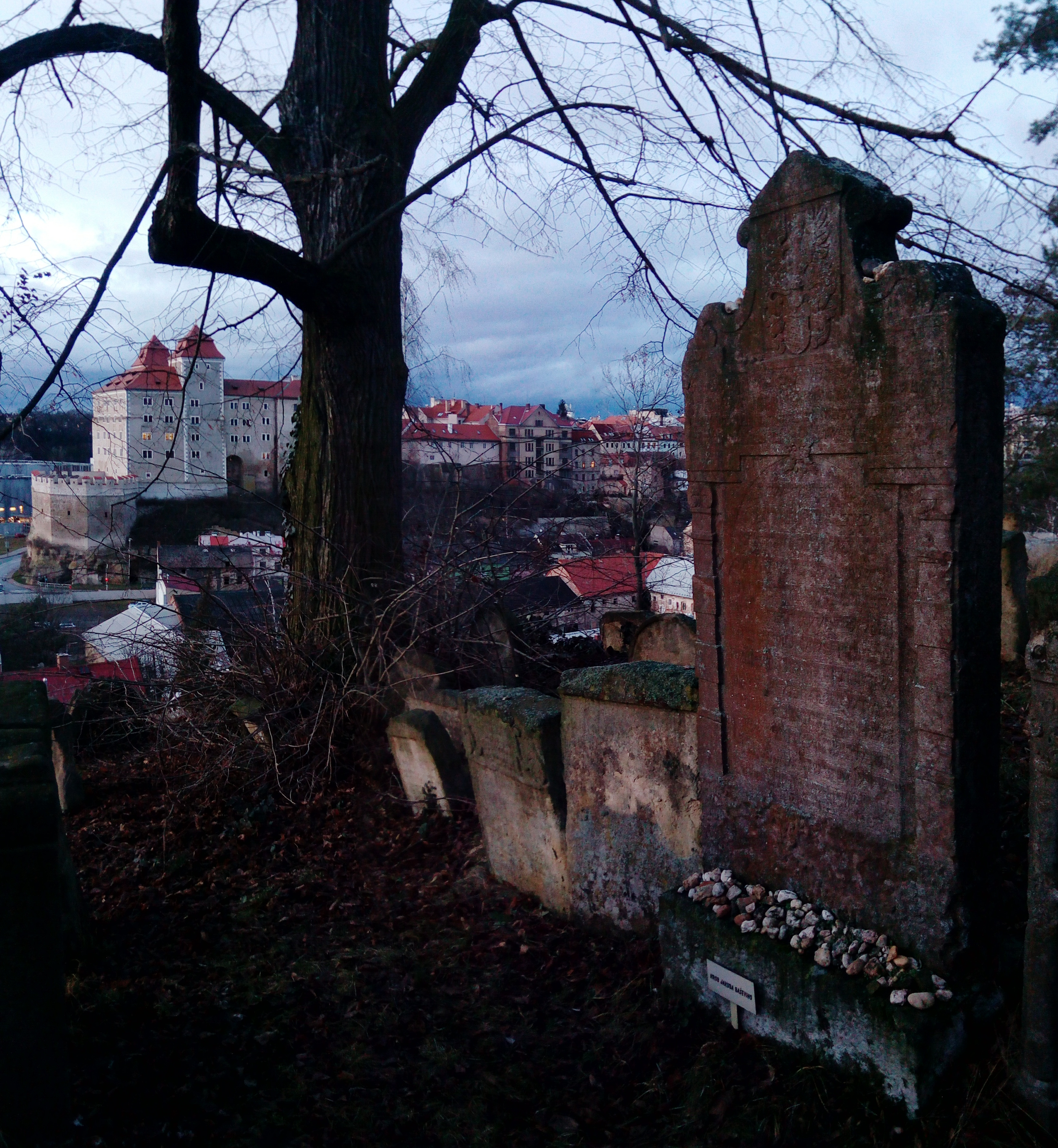 Gravestone of Jacob Bassevi von Treuenberg in the Jewish cemetery in Mladá Boleslav, Czechia, with the castle at the background